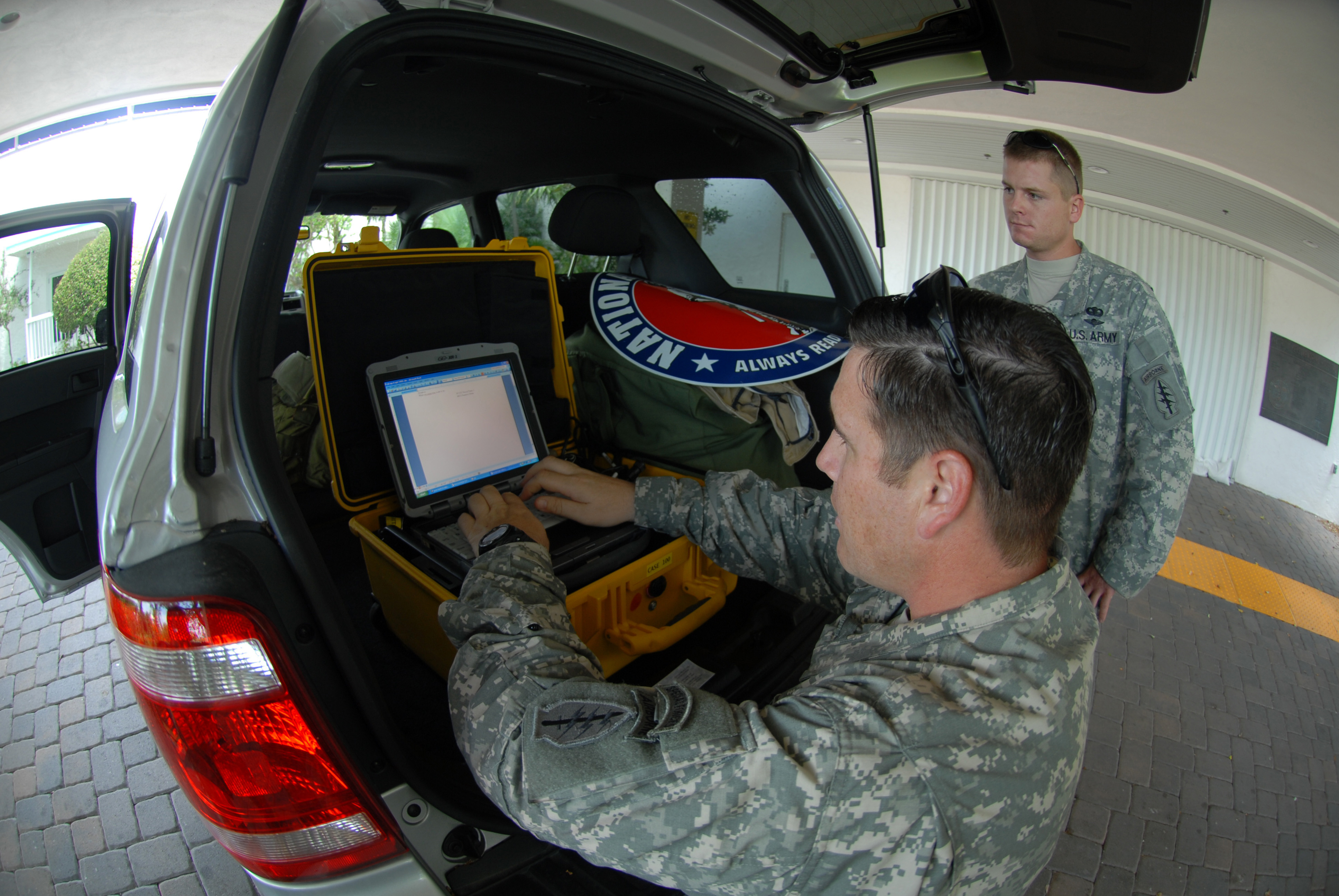 A Florida soldier uses a Single Mobile User Case Set to send a situation report on ongoing preparations for Hurricane Ike in Key West, Fla., Sept. 8, 2008. National Guard photo by Air Force Tech. Sgt. Thomas Kielbasa